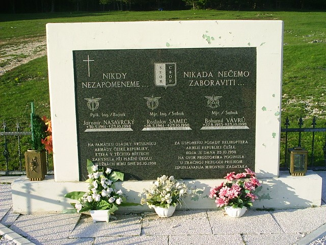 Czech SFOR pilots memorial in Tomislavgrad, BiH